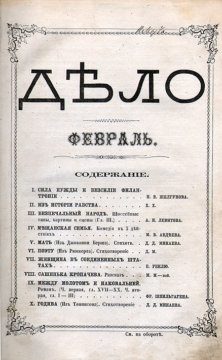 title-page of journal «Delo»